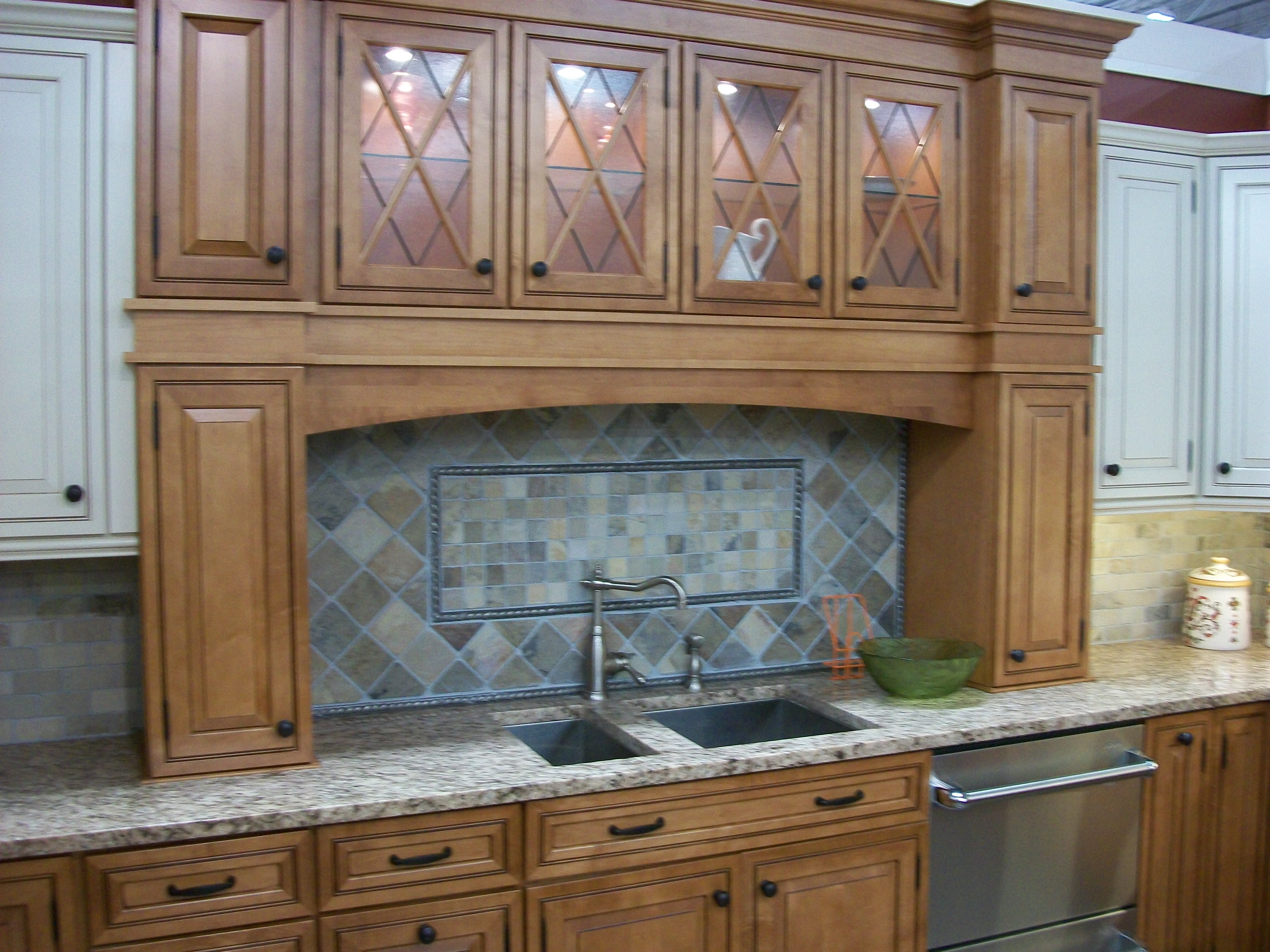 Kitchen cabinet display in NJ in 2009. For use in Wikipedia article on Kitchen cabinets.